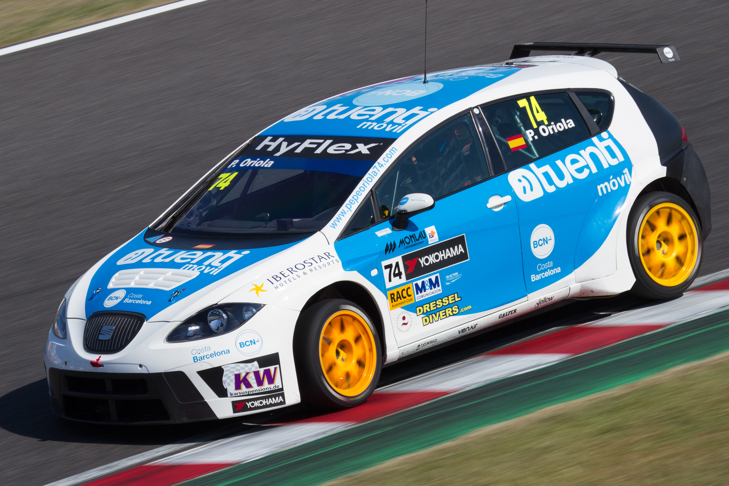 World Touring Car Championship 2012 Race of Japan: Pepe Oriola (Tuenti Racing Team) driving the SEAT Leon WTCC